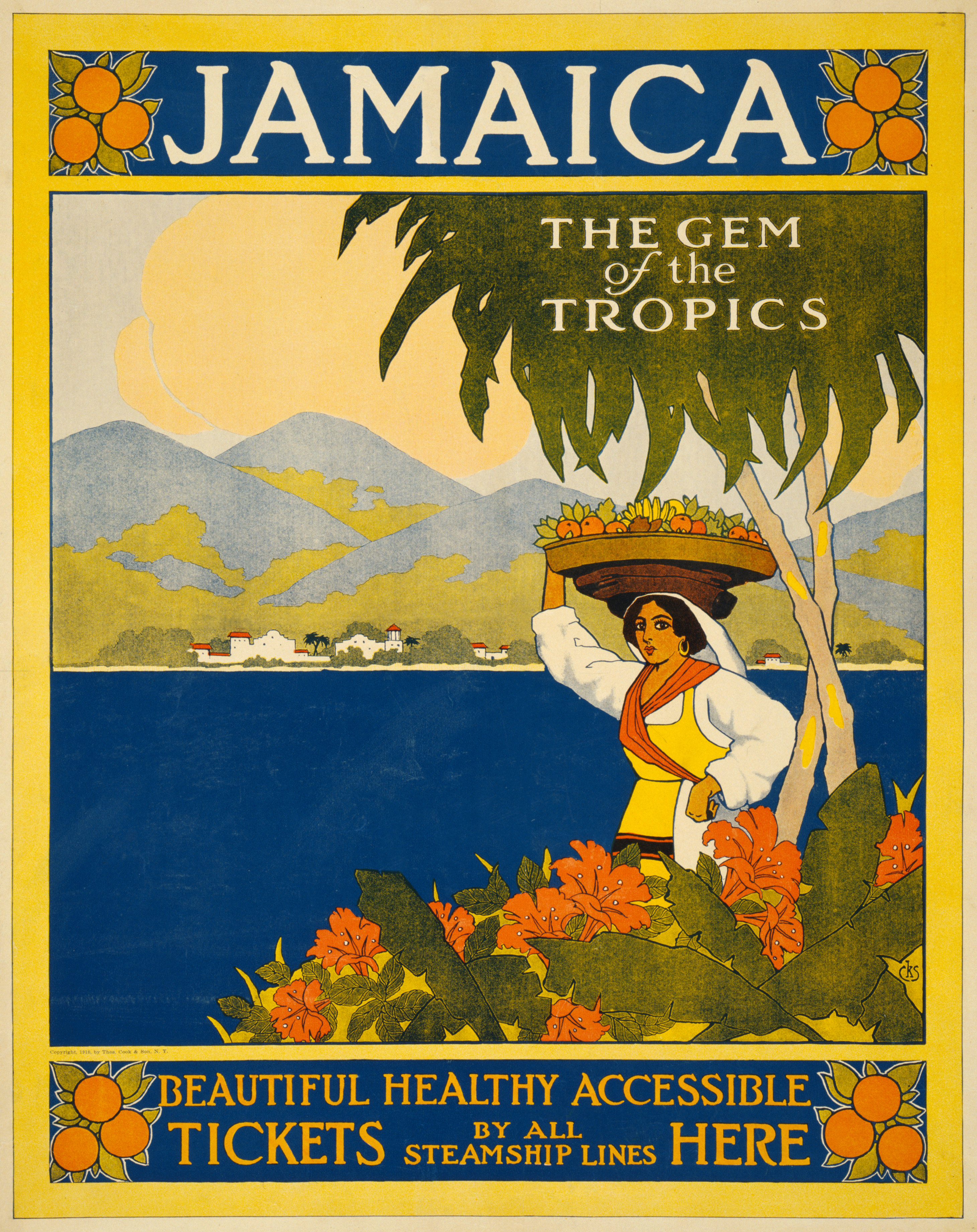 Jamaica, the gem of the tropics. Beautiful, healthy, accessible. Tickets by all steamship lines here. Travel poster by CKS shows a woman standing before a body of water carrying a fruit basket on her head. In the background, mountains and a village. Lithograph by Thos. Cook & Son, New York, 1910. From the Artist Posters Collection at the Library of Congress More travel posters | More artist posters [PD] This picture is in the public domain in the United States.